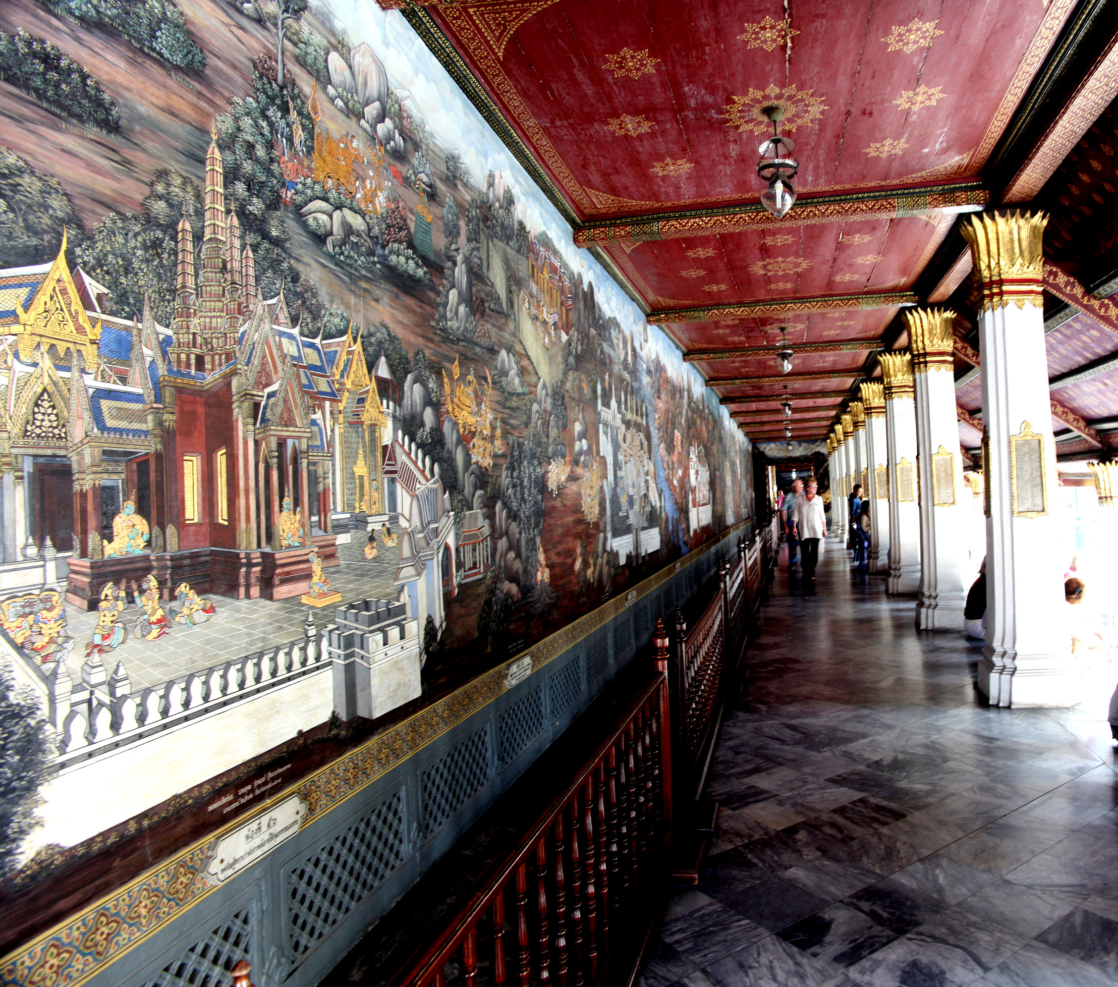 Phra Rabiang (gallery) of Wat Phra Kaeo, Bangkok, Thailand